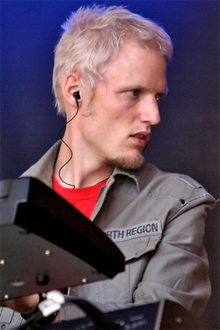 Martijn Westerholt on Stage with Delain at Westerpop Festival 2007 Martijn Westerholt (Delain) au Westerpop Festival 2007